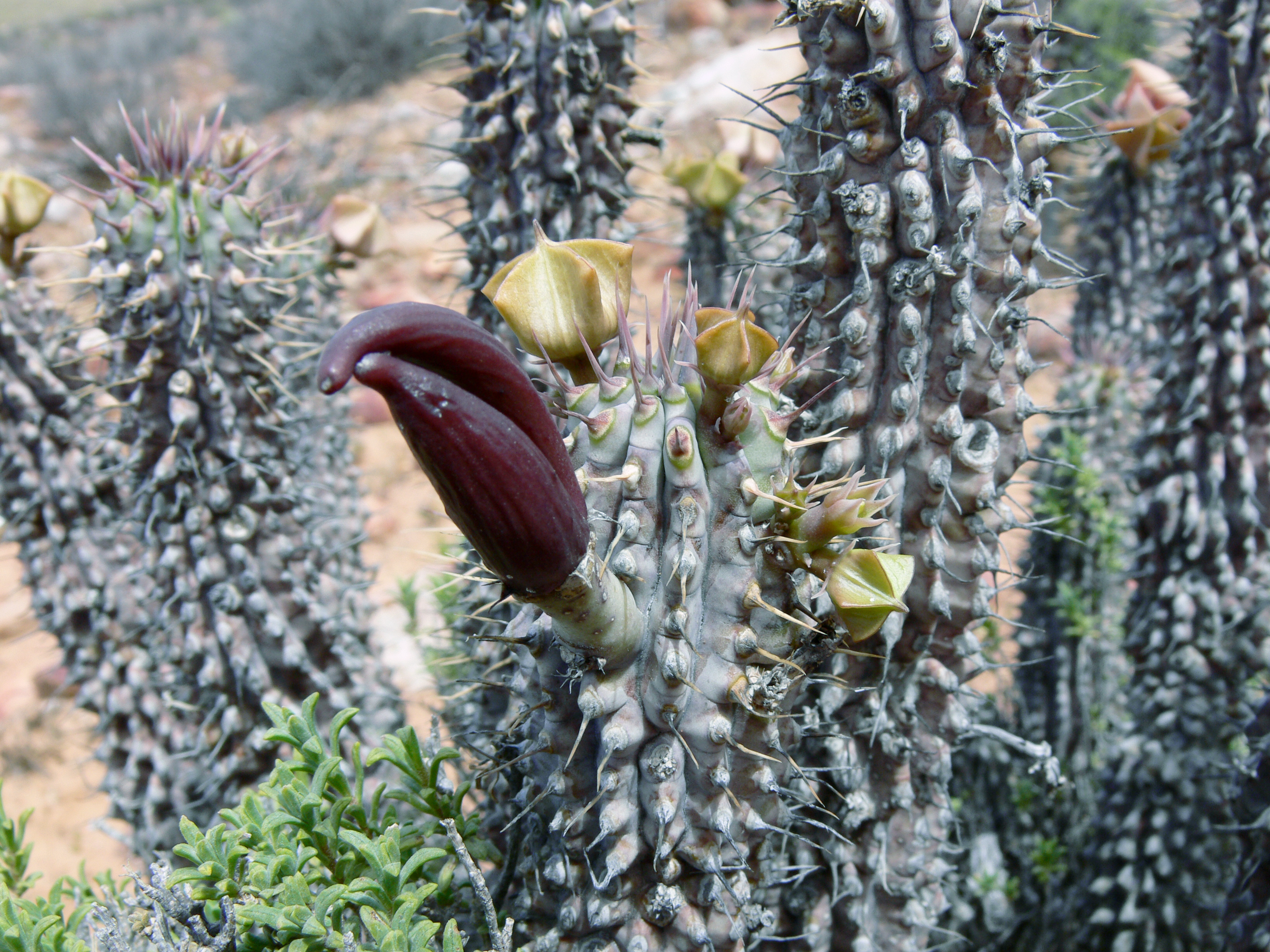 bushman's hat, queen of the Namib, Hoodia gordonii with capsule (fruit). Biedouw Valley, Cederberg Local Municipality, Western Cape, South Africa